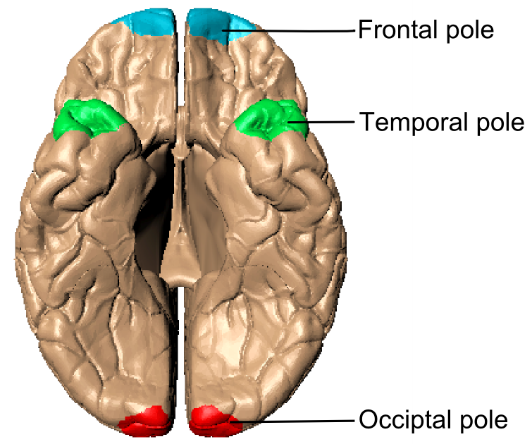 Poles of cerebral hemispheres viewd from bottom. Frontal pole(sky blue). Temporal pole(green). Occipital pole(red). Polygon data are from BodyParts3D maintained by Database Center for Life Science(DBCLS).